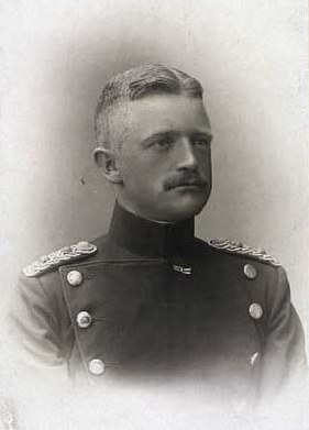 Niels Peter Høeg Hagen (1877-1907), Danish army officer, cartographer, and arctic explorer